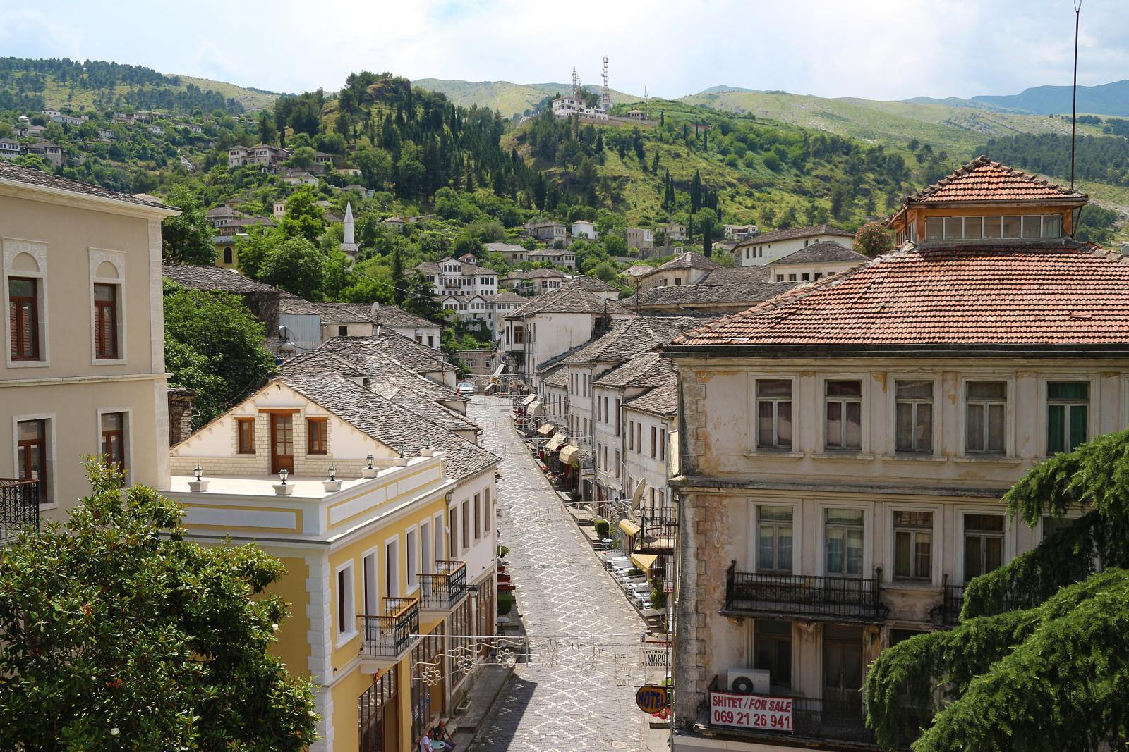 Gjirokaster